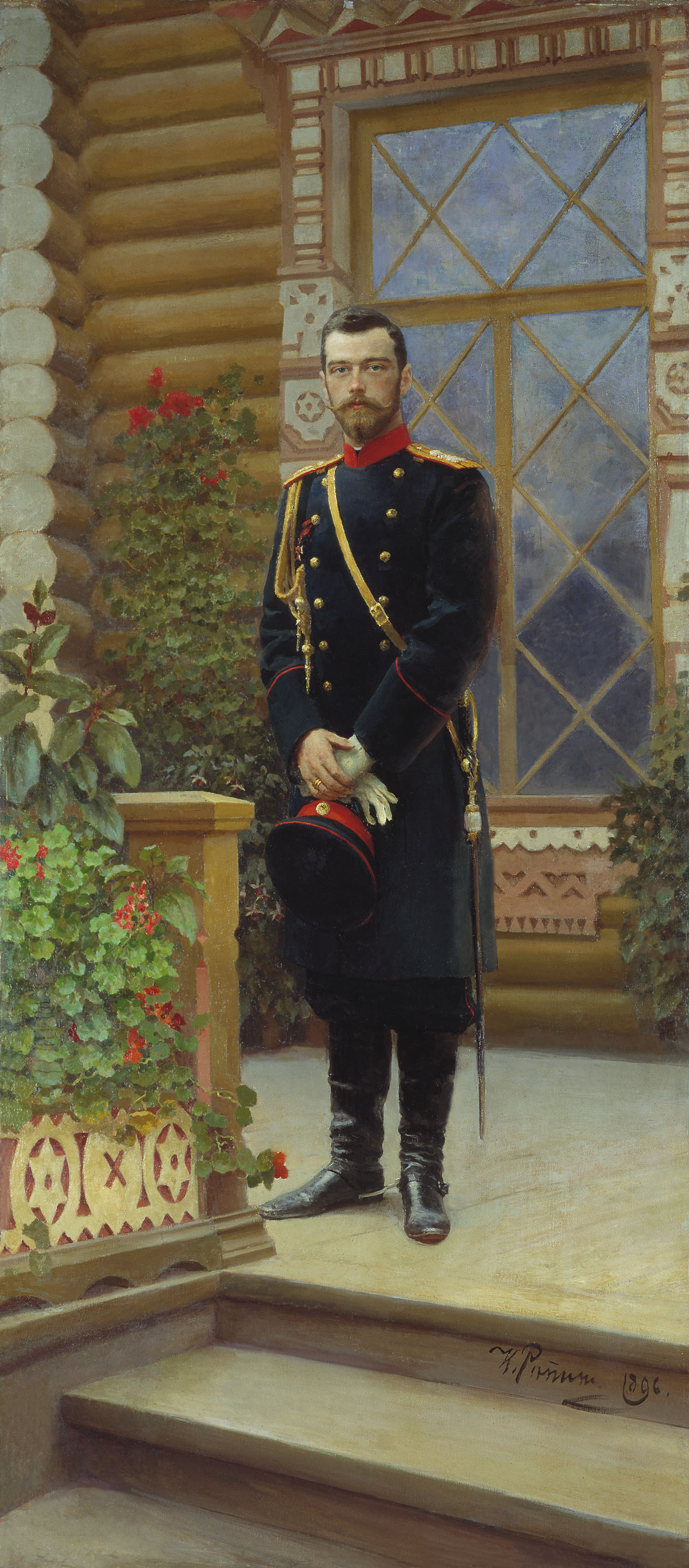 Portrait of Emperor Nicholas II